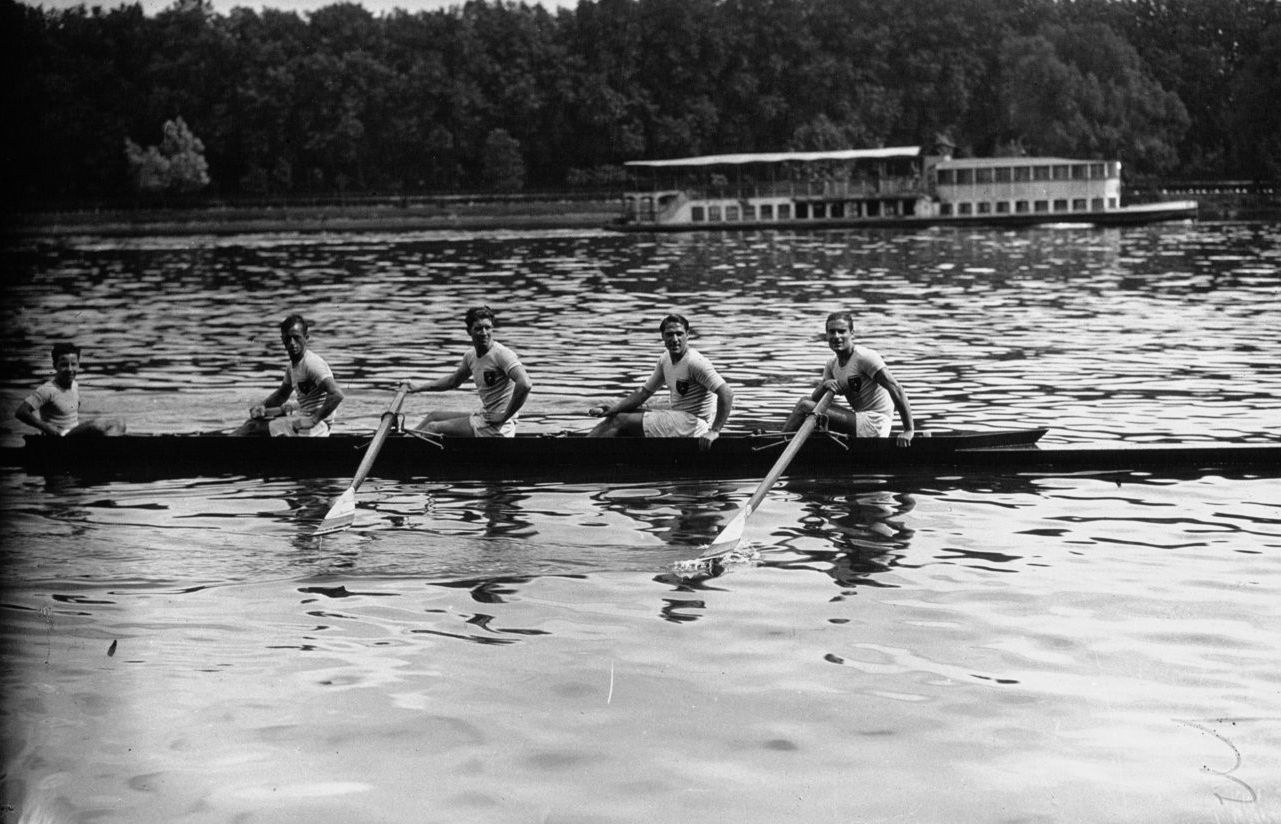 The winning coxed four from Italy at the 1931 European Rowing Championships; Seine at Suresnes.